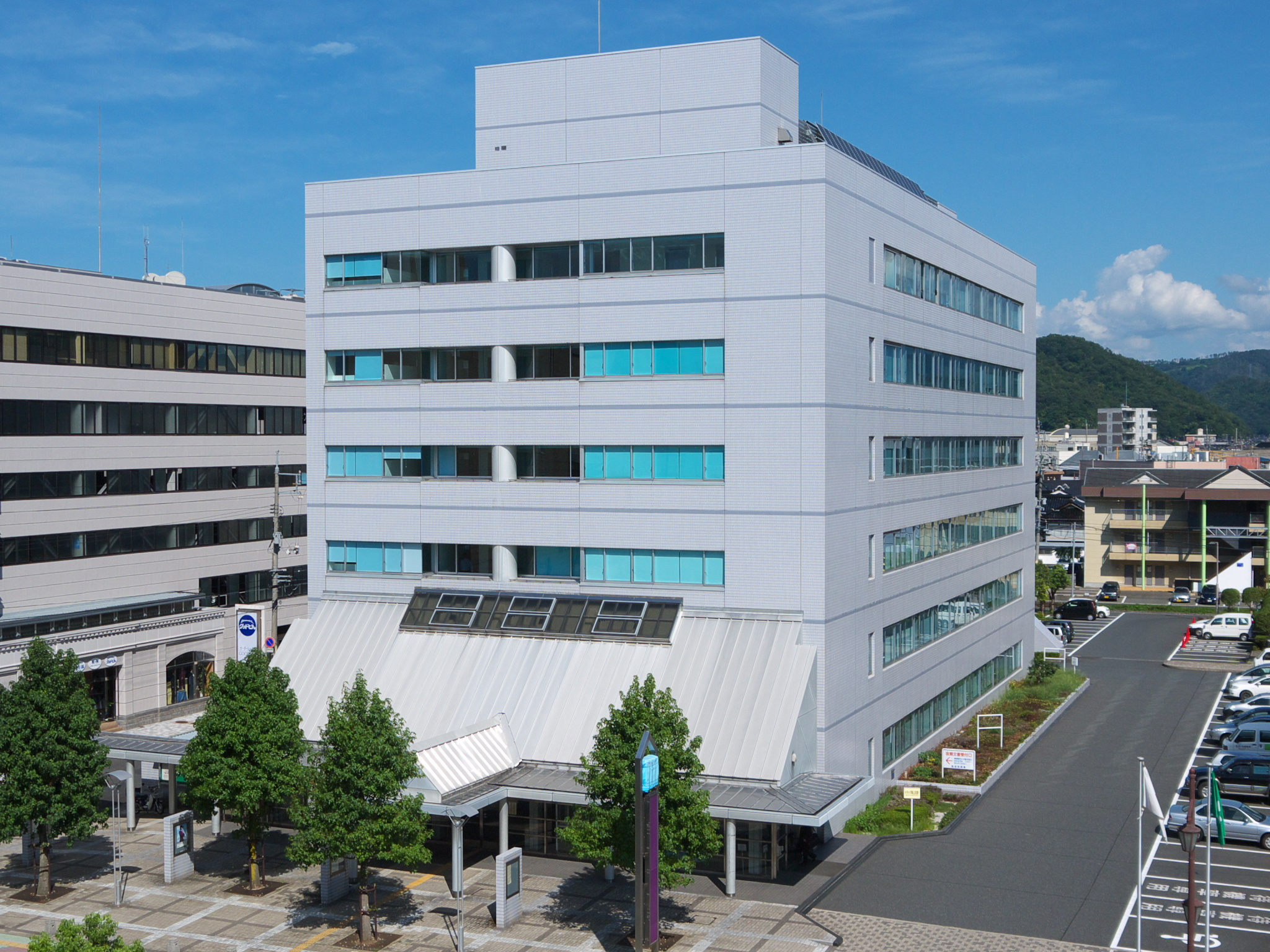 Tottori first regional joint government building Japan Self Defense Force / Tottori Provincial Cooperation Office Chugoku-Shikoku Regional Administrative Evaluation Bureau / Tottori Administrative Evaluation Office Chugoku Local Financial Bureau / Tottori Local Finance Office Hiroshima Regional Taxation Bureau / Tottori Tax Office Tottori Labour Bureau / Tottori Labour Standards Inspection Office Chugoku-Shikoku Regional Agricultural Administration Office / Tottori Area Center Kobe Customs / Sakai Branch Customs / Tottori Guard Post